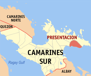 Map of Camarines Sur showing the location of Presentacion